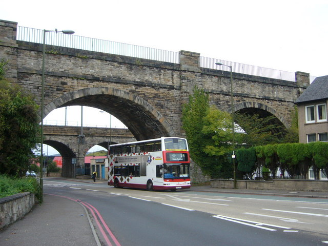 Slateford Aqueduct and Viaduct, Edinburgh, Great Britain. The aqueduct in the foreground was built in 1822 to carry the Union Canal across Inglis Green Road and the Water of Leith, its eight arches running for a total length of 600 feet. Thomas Telford described it as "superior perhaps to any aqueduct in the kingdom". The railway viaduct behind it was built in 1847 by William Arrol who went on to build the Bothwell, Broomielaw, second Tay and Forth bridges and London's Tower Bridge.